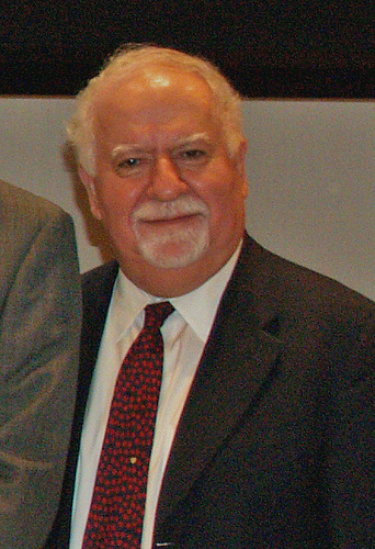 Vartan Gregorian